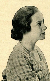 Helen Jerome Eddy, in "The Flirt", from a 1923 publication.